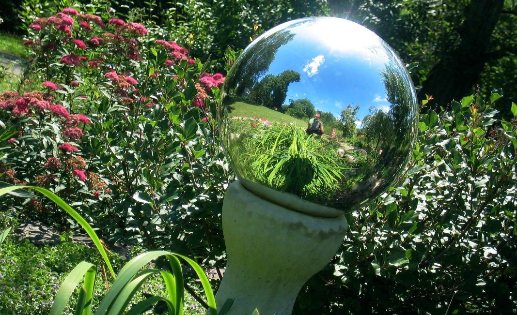 Reflected spherereflected sphere